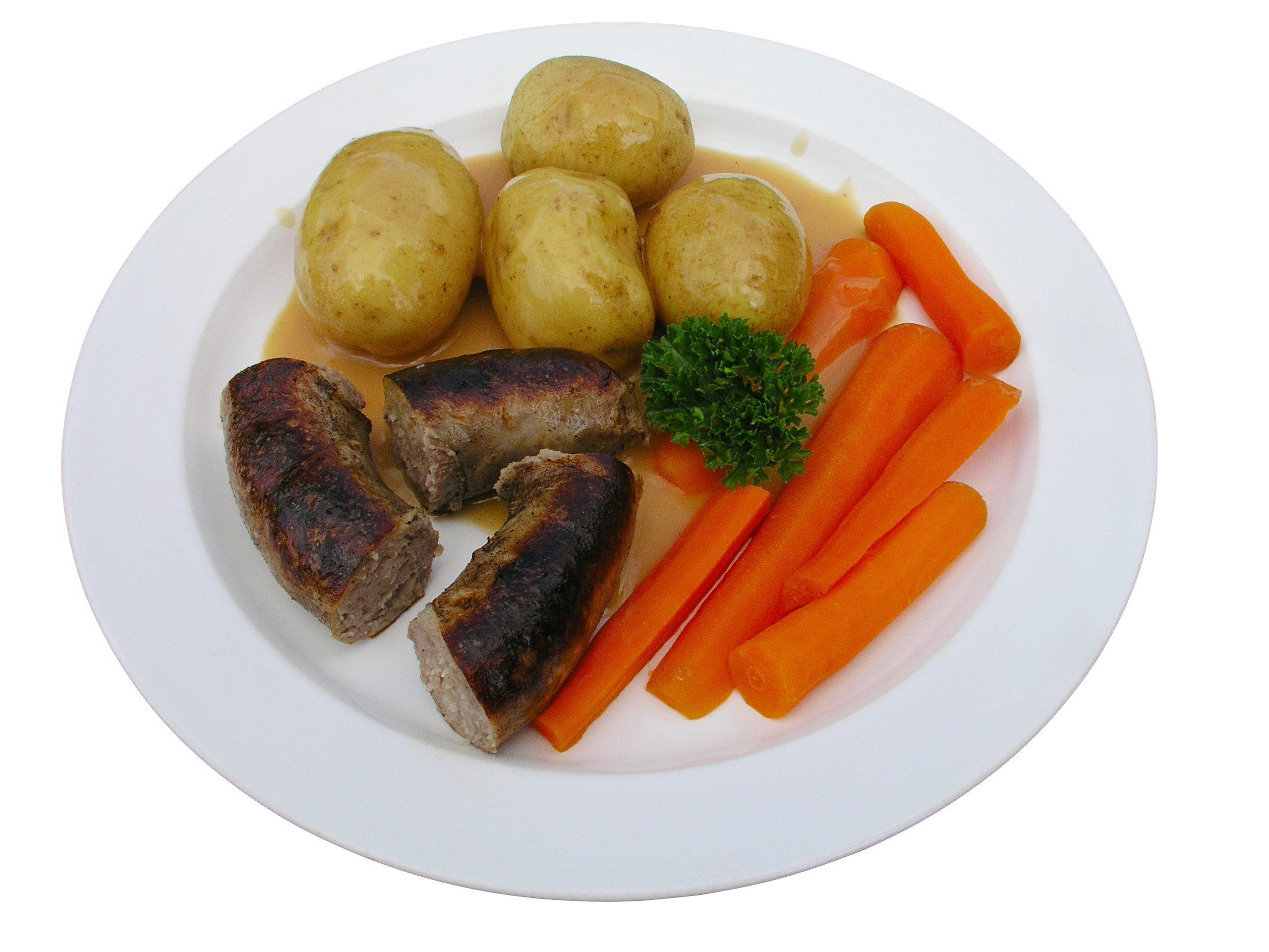 Medisterpølse (a Danish kind of spiced pork sausage} with potatoes and gravy. Additionally boiled carrots and parsley. This is a retouched picture, which means that it has been digitally altered from its original version. Modifications: color adjusted, minor sharpening. The original can be viewed here: Medisterpølse med tilbehør.jpg. Modifications made by Fvasconcellos.